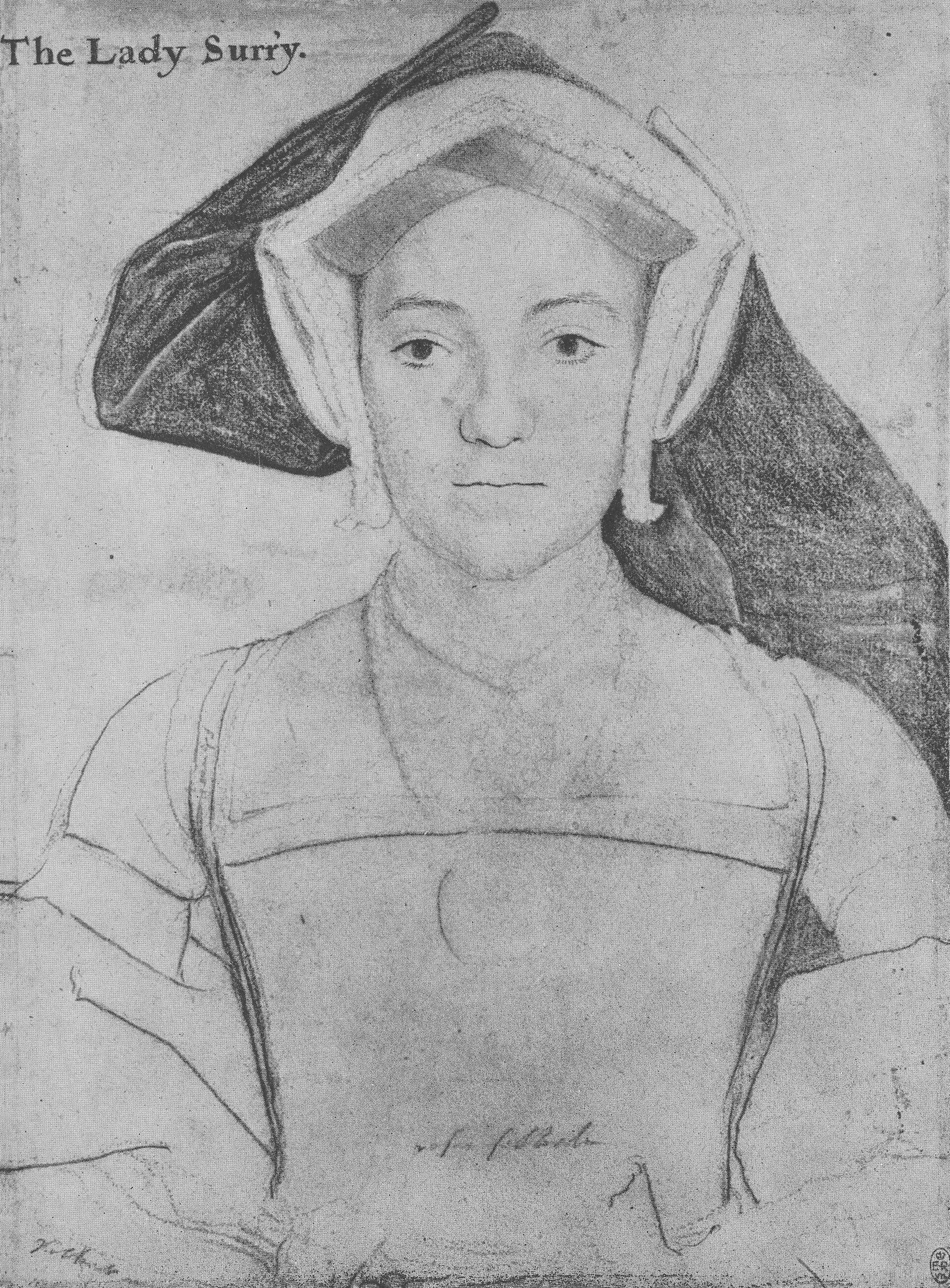 Portrait of Frances, Countess of Surrey. Black and coloured chalks, pen and Indian ink, white bodycolour, on pink-primed paper, 31.5 × 21.3 cm, Royal Collection, Windsor Castle. The black fall of the headdress may be reworked, and the projection on the left and some of the contours of the sleeve and corsage appear to have been mechanically transferred by indentation (Parker, p. 41). Frances de Vere (c. 1516–77) was the daughter of John de Vere, 15th Earl of Oxford. In 1522, she married Henry Howard, Earl of Surrey, whom Holbein drew twice, once in a similar frontal pose.